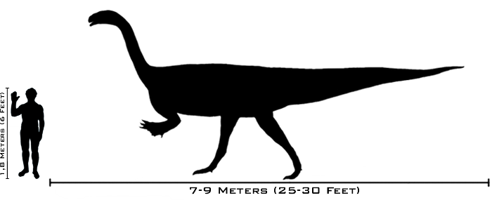 Size comparison between the prosauropod dinosaur Plateosaurus and a human